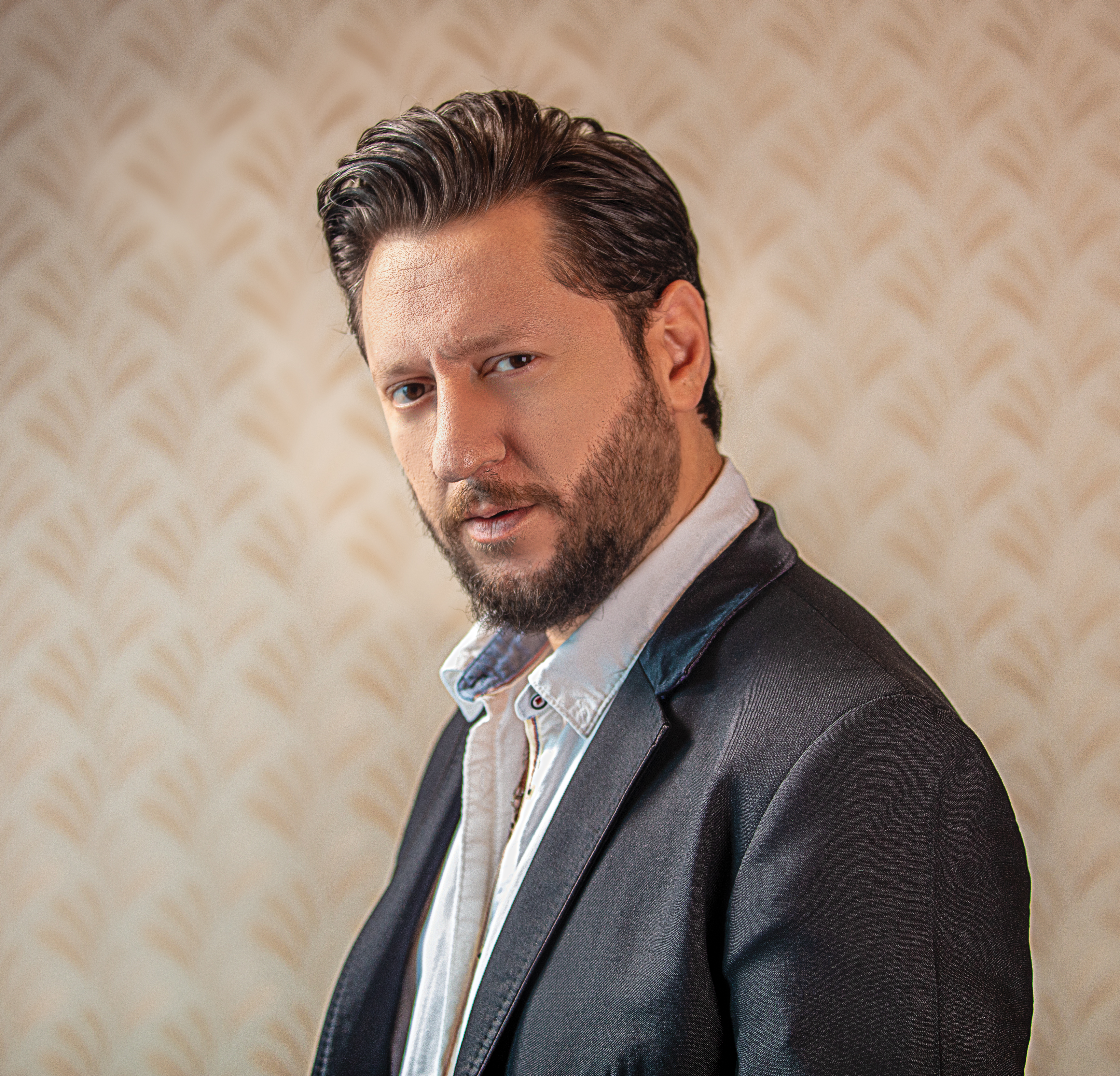 photo of the Director Muhaned Abu Khumra